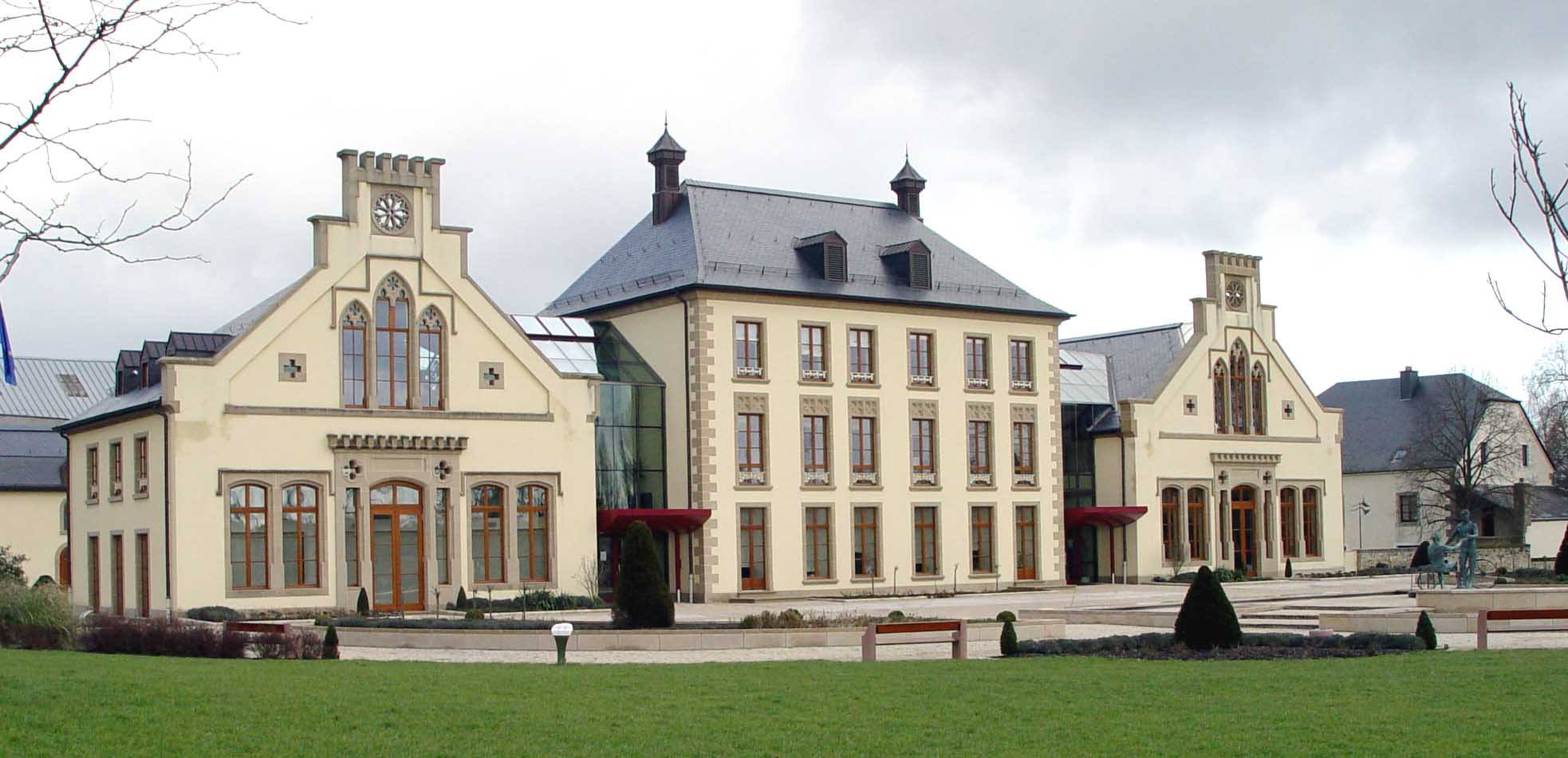 Local authority in Mamer (Luxembourg)